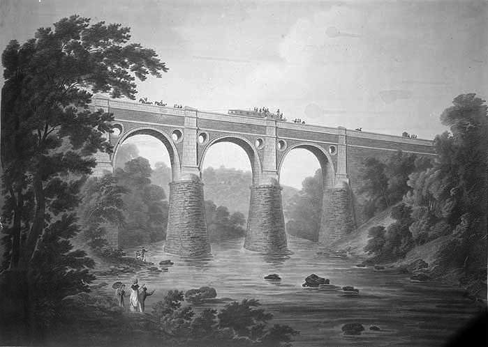 An aquatint showing a general perspective view of the Marple Aqueduct carrying the Peak Forest Canal, drawn in 1803, three years after it opened.